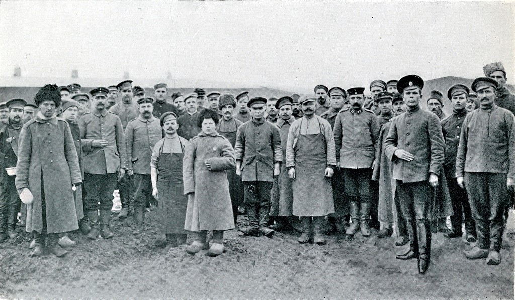 Prisoner of war camp, Wetzlar, Germany, most probably Wetzlar-Büblingshausen. The prisoners are from the Russian army. In the PW prisoners of war camp in Wetzlar-Büblingshausen ethnic Ukrainians were concentrated.